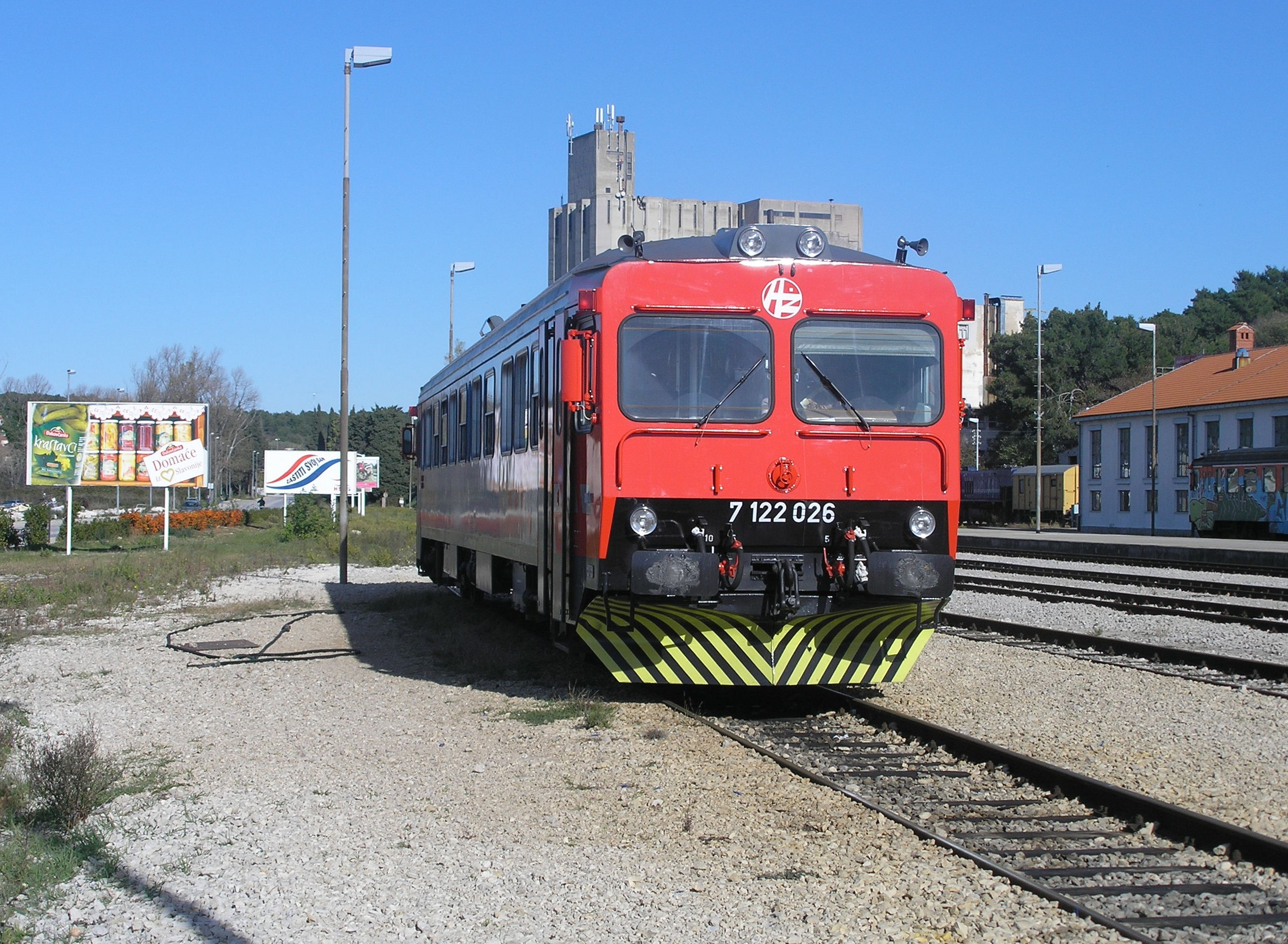 7122 series train (Kalmar Verkstad Y1) in Pula, Croatia